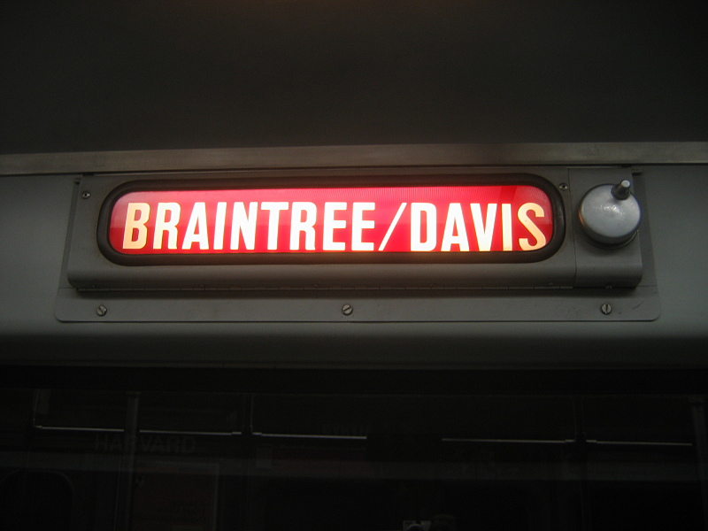 Rollsign on an MBTA Red Line train. This rollsign was only valid between 8 December 1984 (when Davis opened as a temporary terminus) and 30 March 1985 (when Alewife opened); however, the picture was taken in 2005.